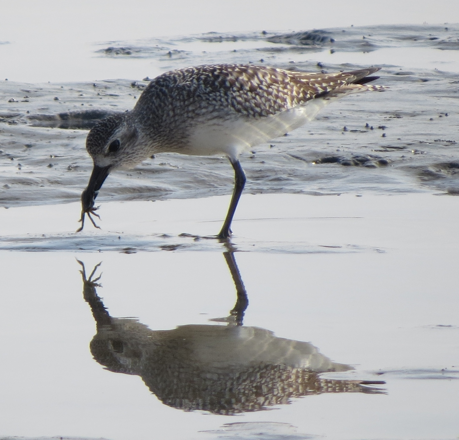 Pluvialis squatarola (Grey Plover), eating crab, winter plumage, in Japan.